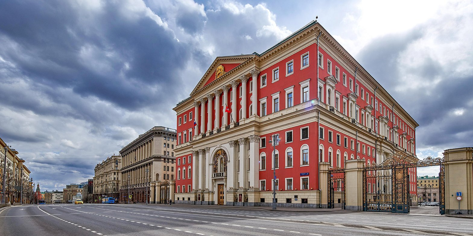 Tverskaya Street in Moscow